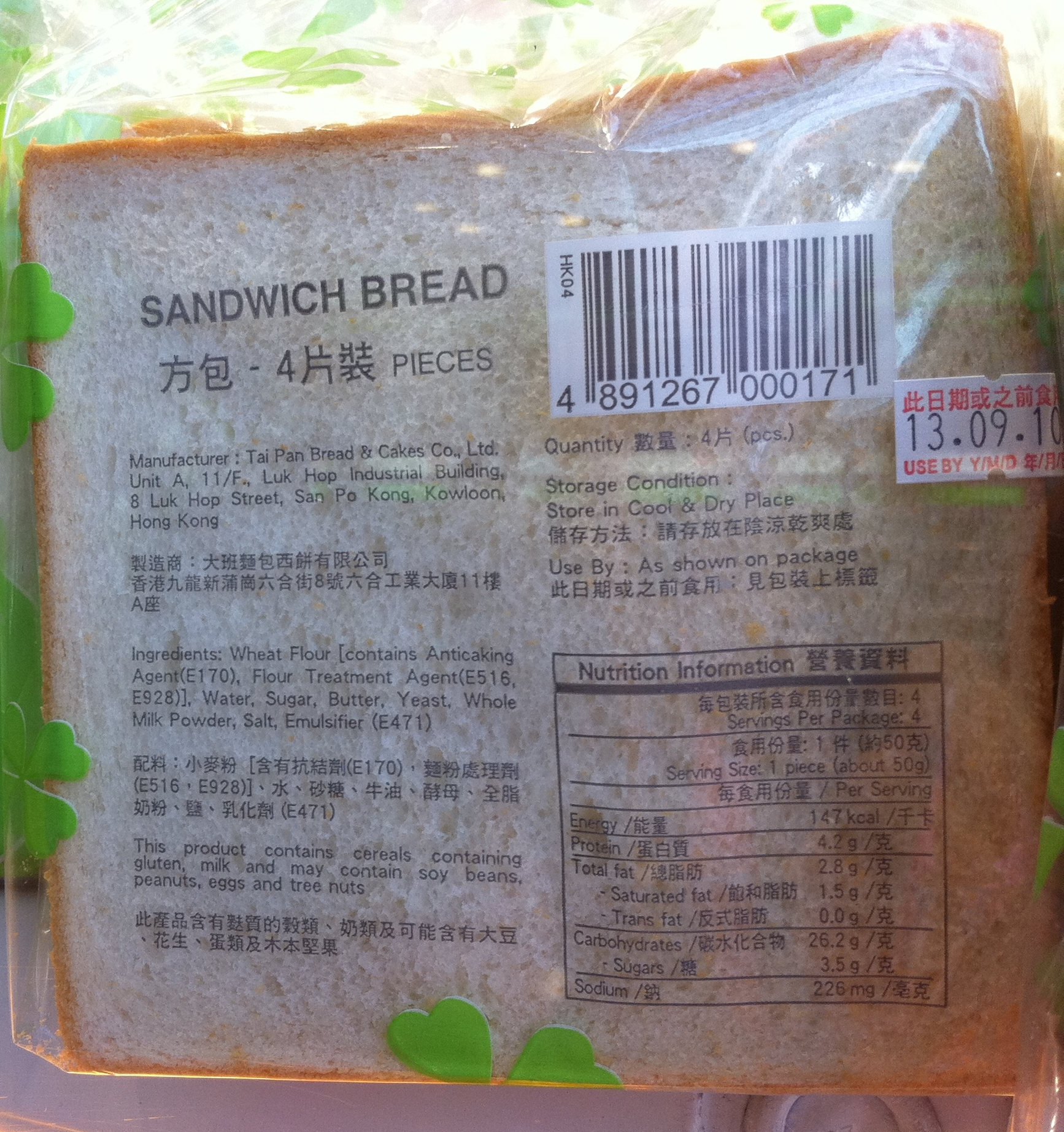 Taipan sandwich white bread, pre-packed food nutrition information, Yee Wo Street, Causeway Bay, Hong Kong